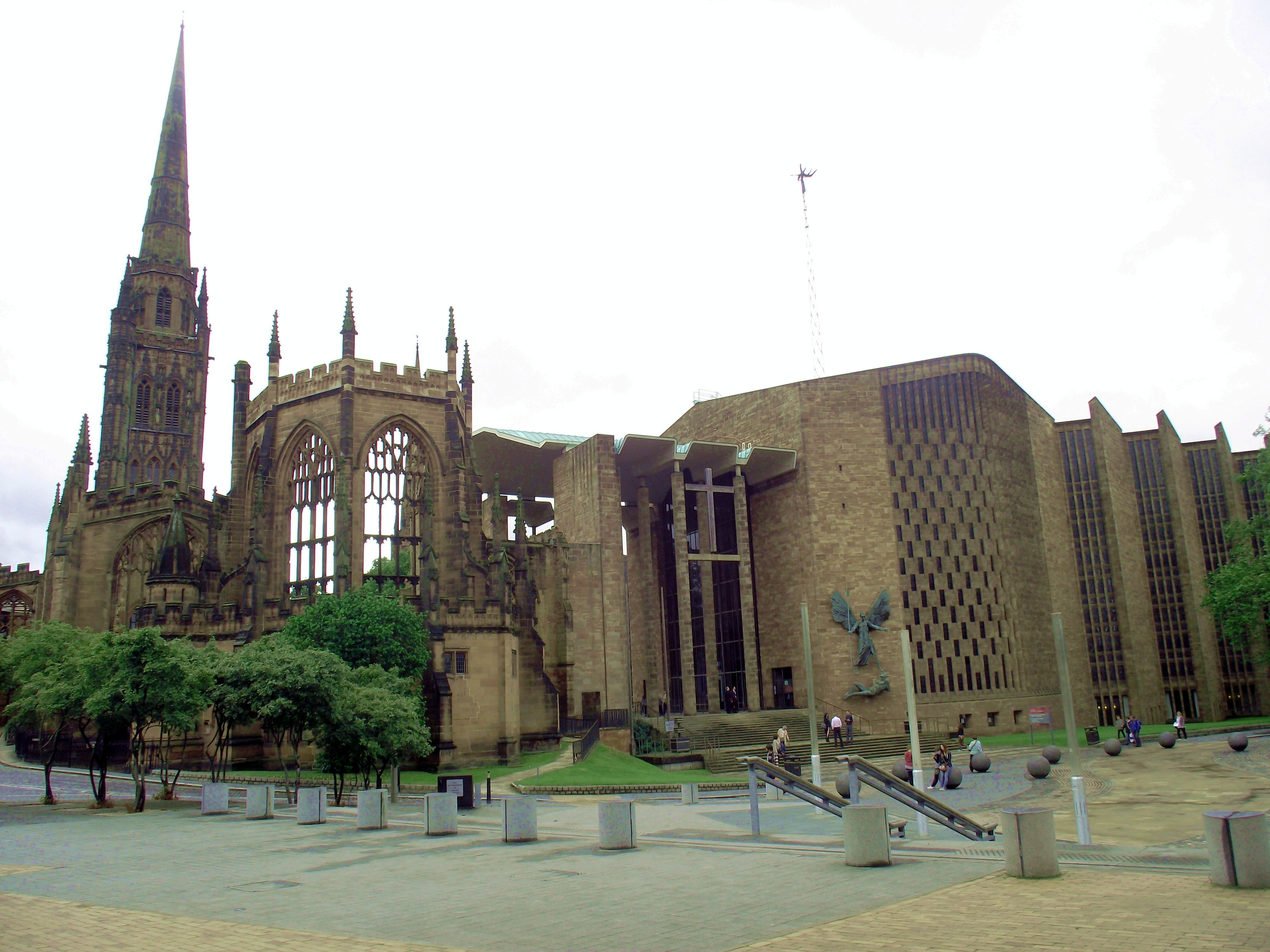 Coventry New and Old Cathedrals